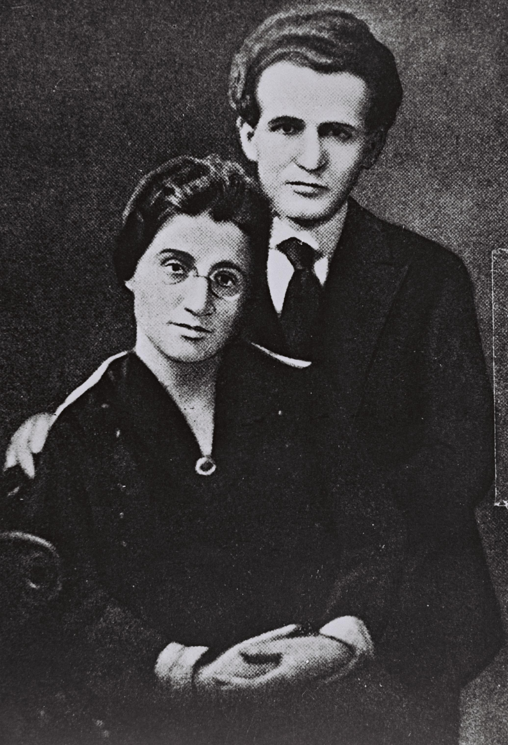 Paula Munweis and David Ben Gurion before their wedding in New York